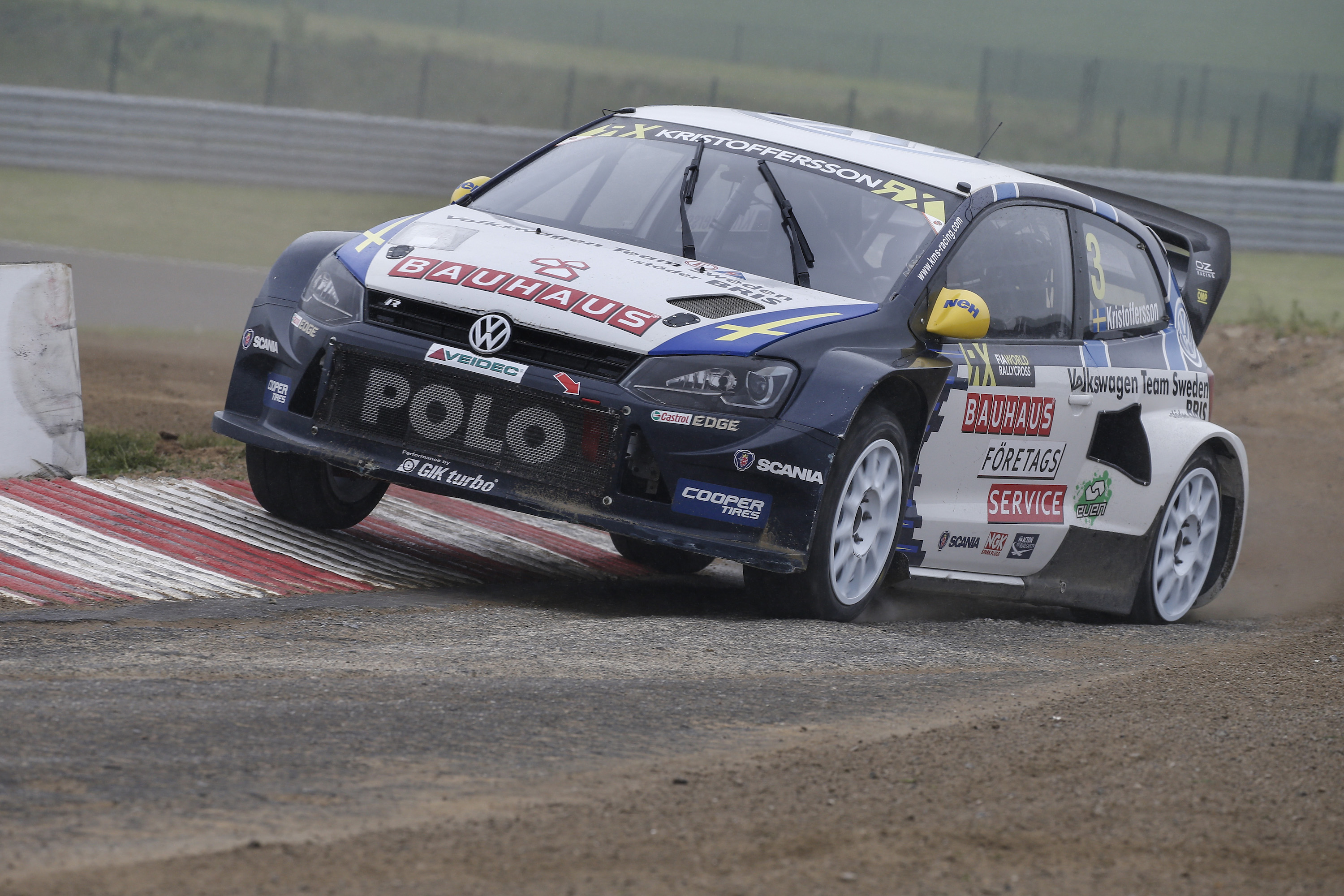 Swedish rallycross driver Johan Kristoffersson in his VW Polo Supercar. Round 3 of the 2015 FIA World Rallycross Championship, at Circuit Jules Tacheny Mettet, Belgium.